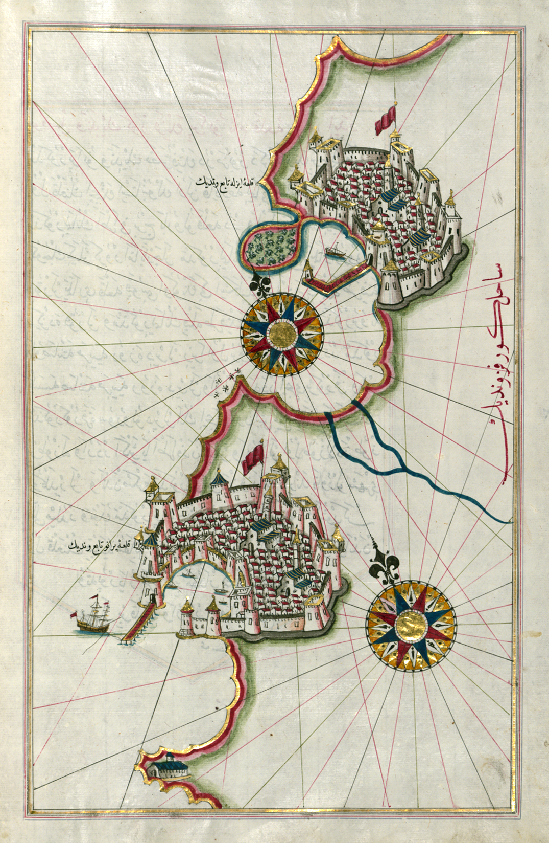 This folio from Walters manuscript W.658 contains a map of the coastline from Piran (Piranu) as far as Izola (Izele) (Slovenia).